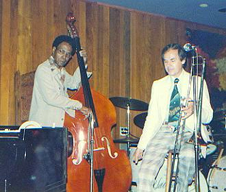 Jazzmen George Morrow and Urbie Green at the Village Jazz Lounge in Walt Disney World